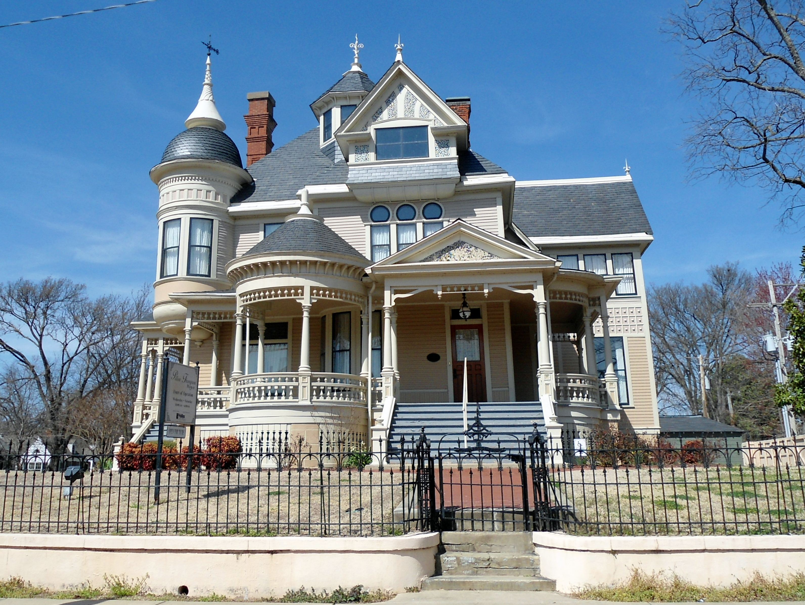 Historic Pillow-Thompson House in Helena-West Helena